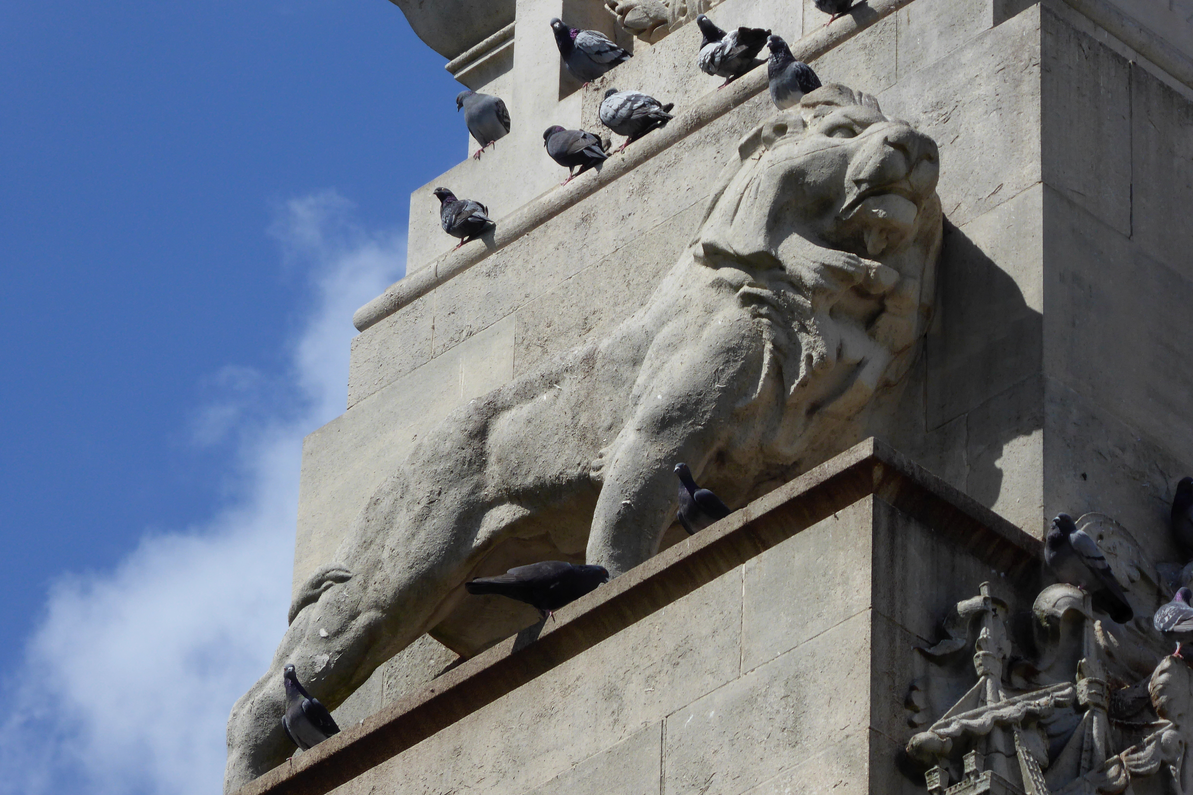 Sculptural detail of a lion on the southern side of the Southampton Cenotaph.